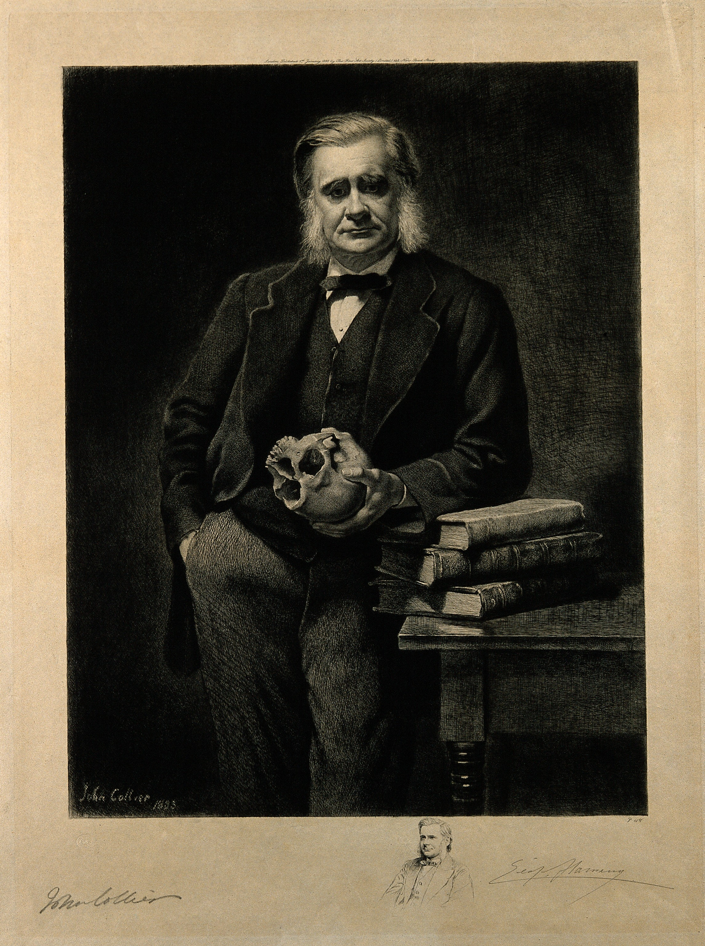 Thomas Henry Huxley. Etching by L. Flameng after the Hon. J. Collier. Iconographic Collections Keywords: portrait prints; Léopold Flameng; etchings; Thomas Henry Huxley